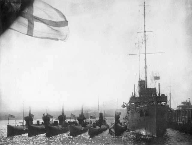 AWM Caption: SYDNEY, NSW, 1919-07-15. SIX J CLASS SUBMARINES CAN BE SEEN MOORED TO THEIR DEPOT SHIP, HMAS PLATYPUS. THE EX-BRITISH SUBMARINES HAD RECENTLY ARRIVED TO JOIN THE RAN.